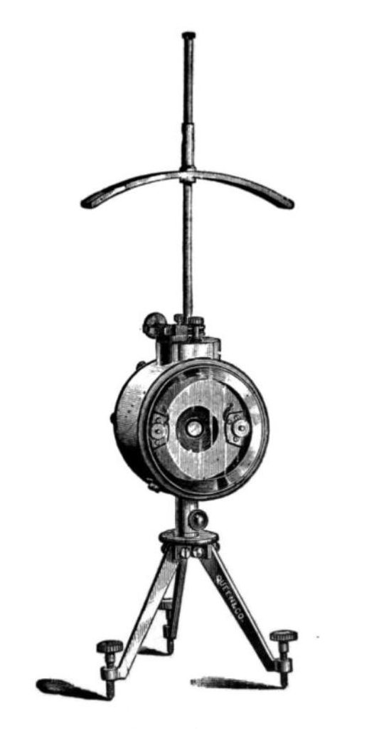 Drawing of a Thomson reflecting galvanometer from around 1900. Tom Perera's Scientific instrument collection says it was Model 502, made by Elliot Bros., London. The vertical tube contains a fine silk fiber, which suspends a 1/2 in. mirror with small magnets on its back, seen in window, in the center of a coil of wire. A light beam reflected from the mirror lands on a scale and serves as a pointer. It has interchangeable coils of from 150 to 5000 ohms resistance. Alterations: removed caption, rotated image so it was vertical.